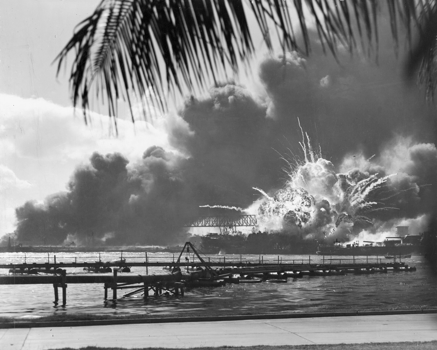 9:30AM: USS SHAW (DD-373)'s forward magazine explodes during the Japanese raid on Pearl Harbor." December 7, 1941. At right, The bow of USS Nevada can be seen after her aborted escape attempt out channel. Navy Tugboat Hoga (YT-146) maneuvers at the port bow of Nevada whose stern had swung 180 degrees back out towards sea channel after her quartermaster, under orders, nosed her bow into the mud at Hospital point. Hoga and companion tug YT-130 then pulled Nevada free and moved her to the western side of the channel where she settled into the mud at 10:45. Dredge line from the southern tip of Ford island is visible in the foreground. In background at left, smoke rises from Hickam field. A navy photographer snapped this photograph of the Japanese attack on Pearl Harbor in Hawaii on December 7, 1941, just as the USS Shaw exploded. (80-G-16871) National archive number 80-G-16871 Naval Historical Center # NH 86118 NAIL Control Number: NWDNS-80-G-16871